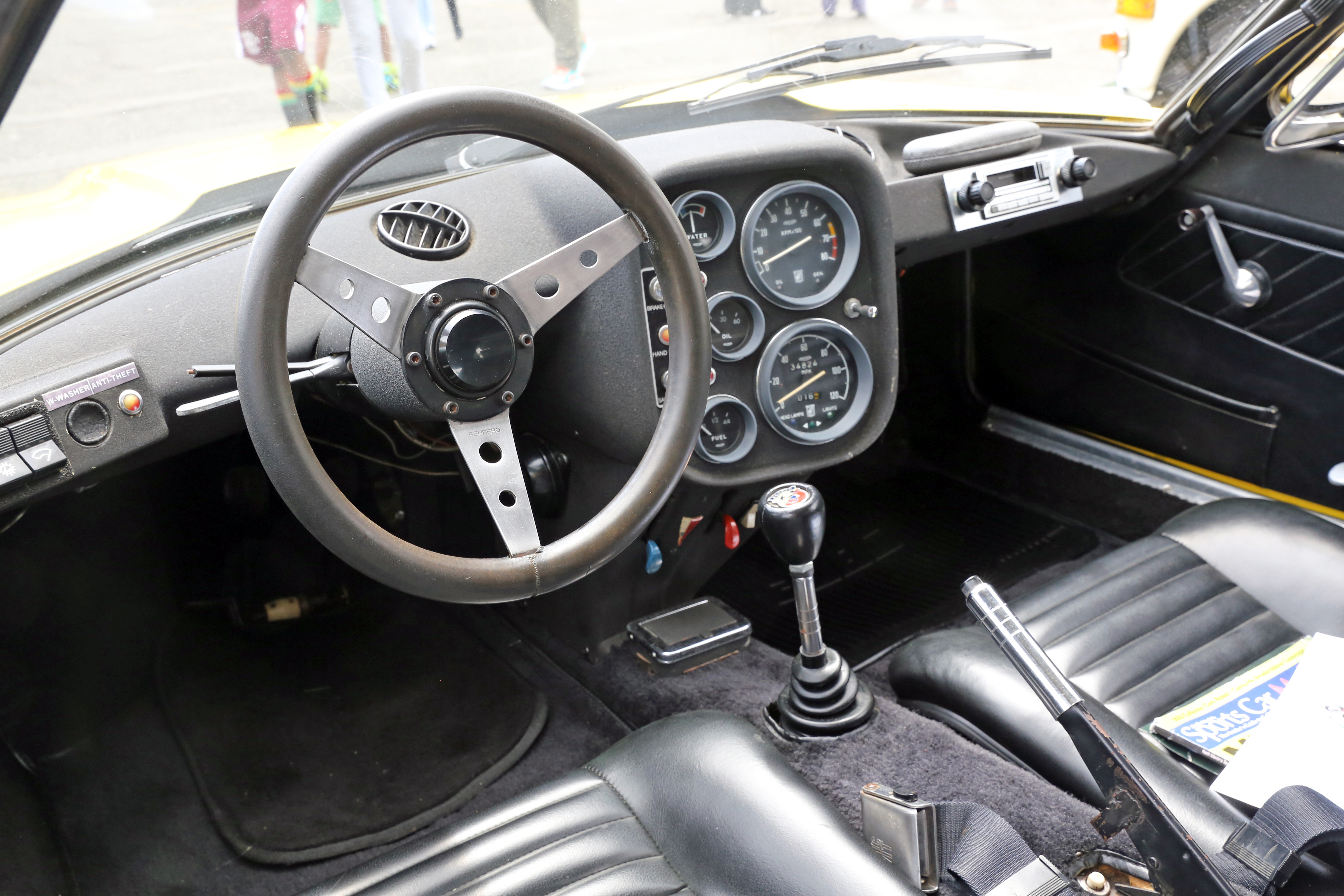 Dashboard of a 1971 OTAS Grand Prix 820cc (to give the car's full name according to the emissions plate), chassis no 0035.